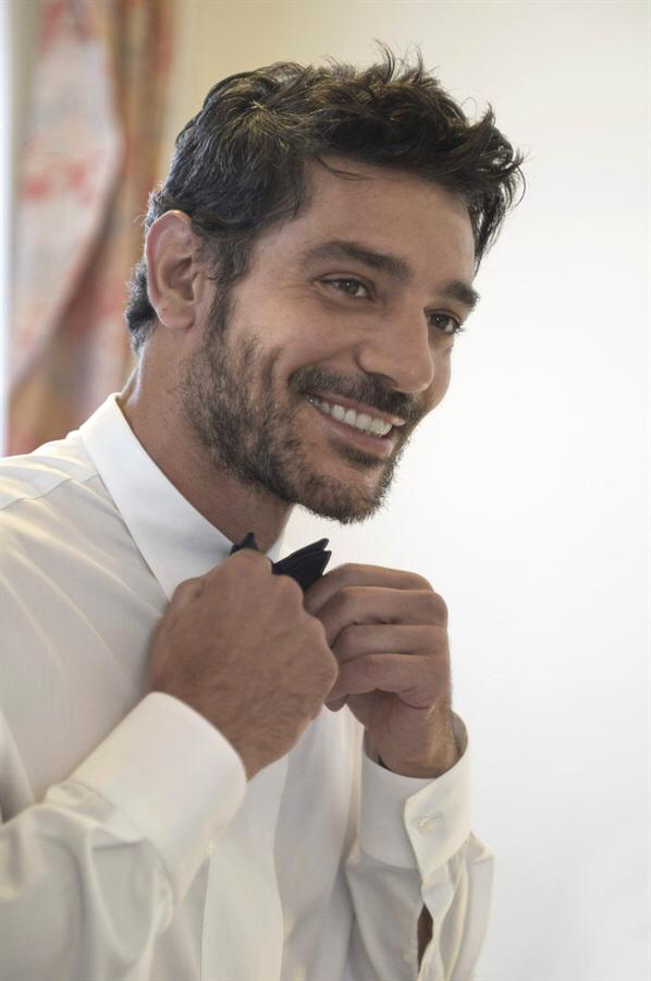 Italian actor Giuseppe Zeno.